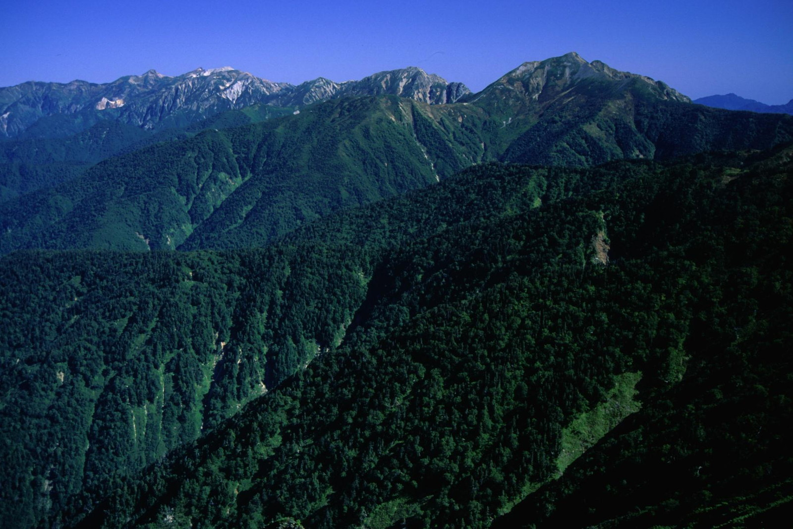 Ushirotateyama Mountains (Mount Kashimayari etc) seen from Mount Narusawa in Hida Mountains, Japan.